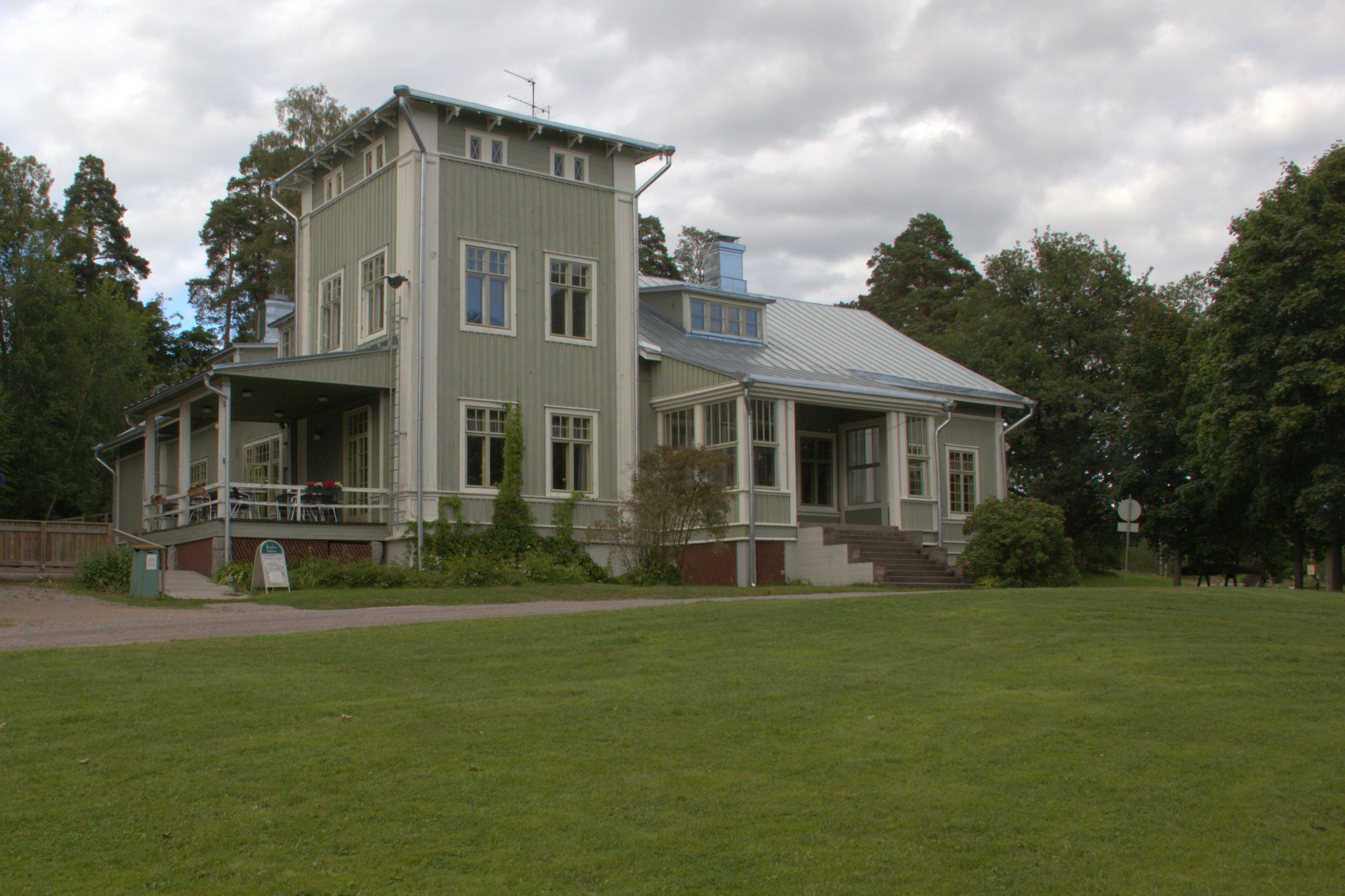 Rastila Manor